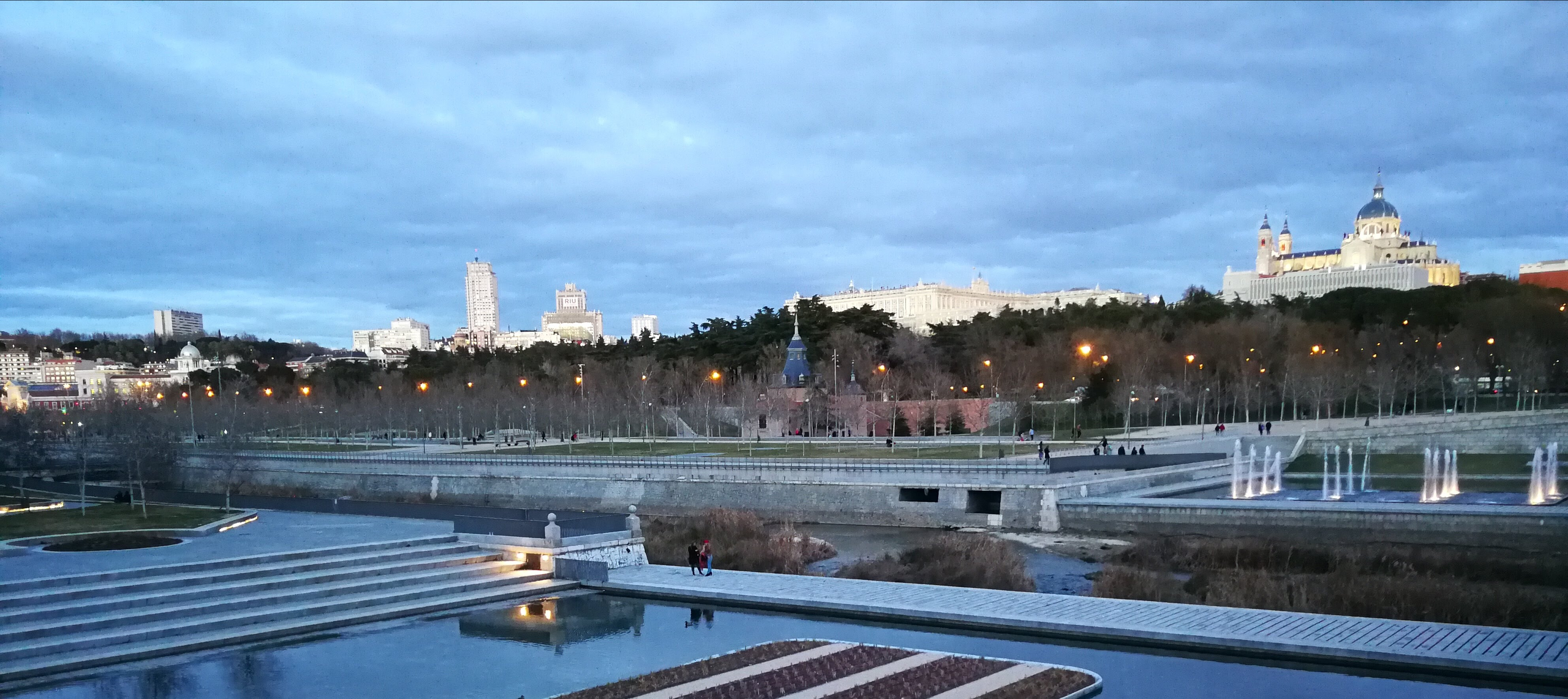 Almudena Cathedral, the Royal Palace and the towers of Spain and Madrid located in Plaza de España, from Segovia Bridge, Madrid Río